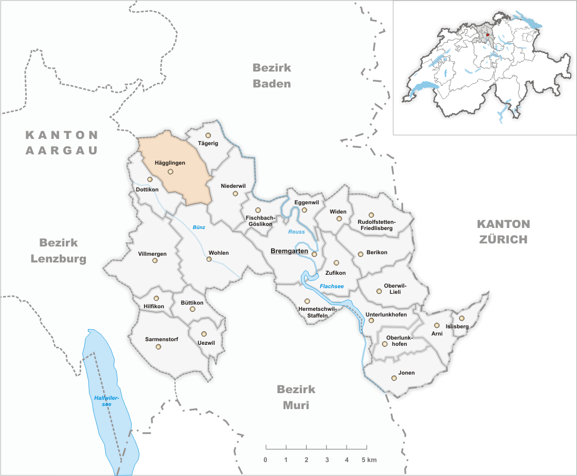 Municipality Hägglingen